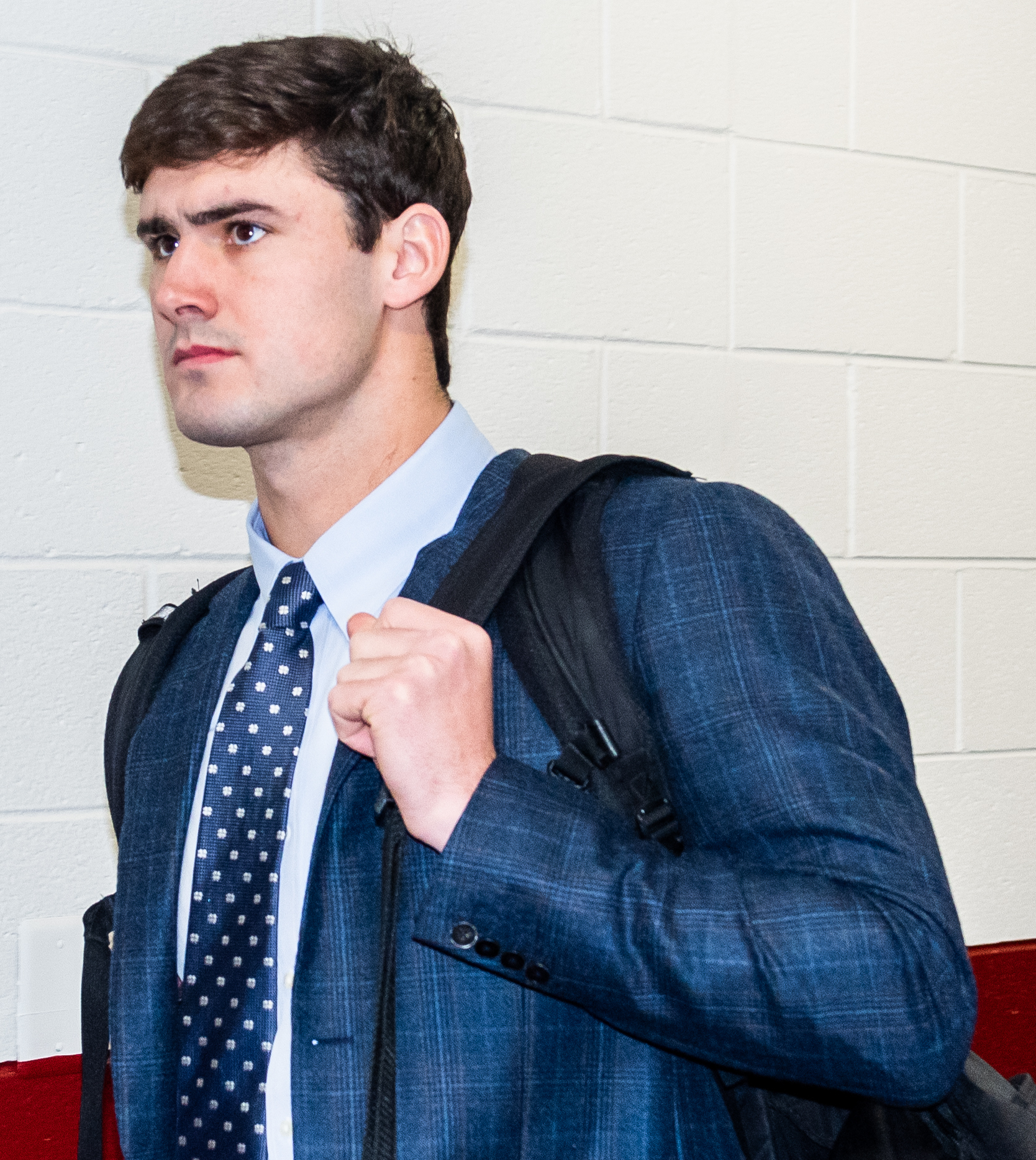 In 2019